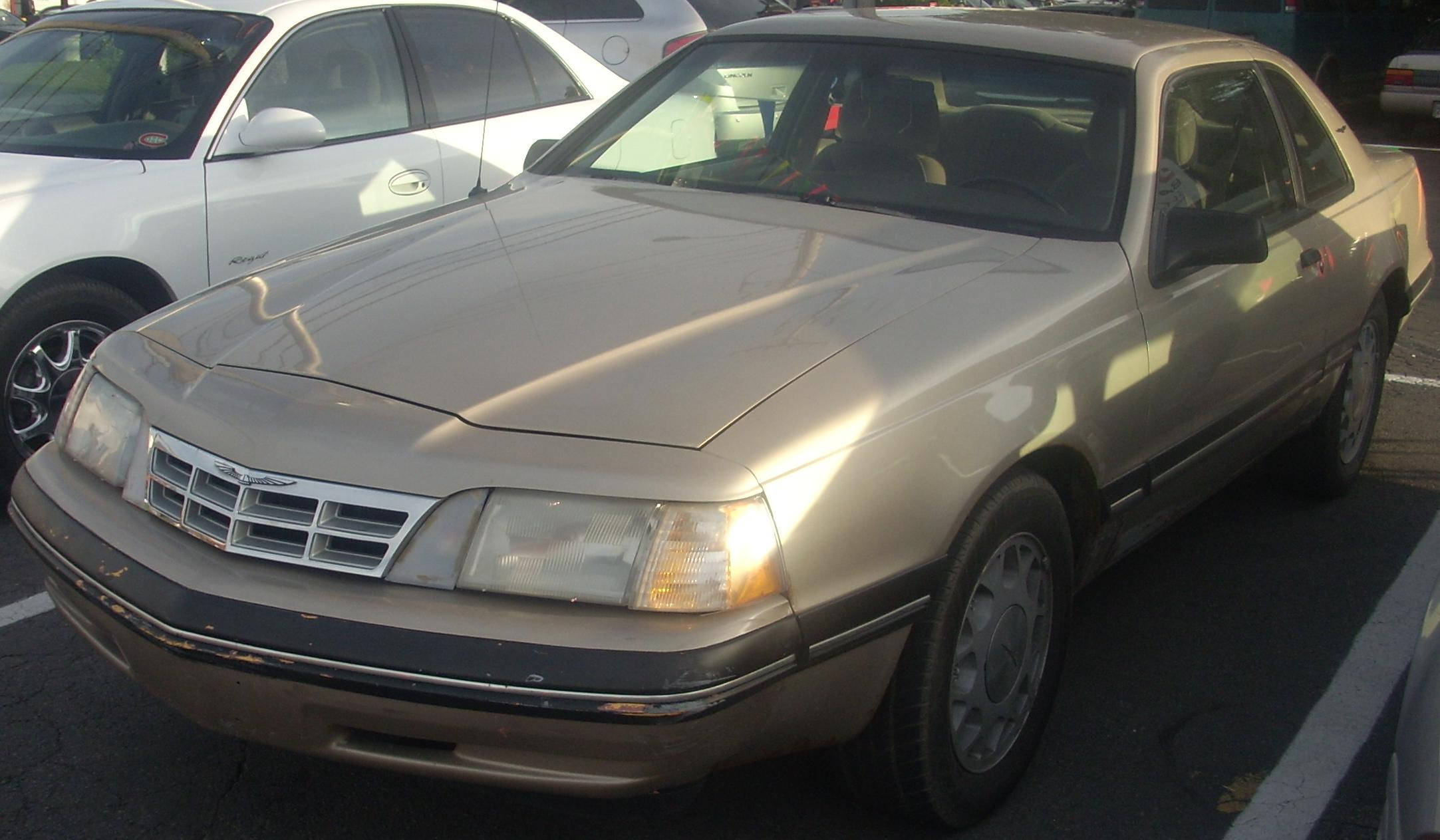 1987-1988 Ford Thunderbird photographed in Montreal, Quebec, Canada at Gibeau Orange Julep.